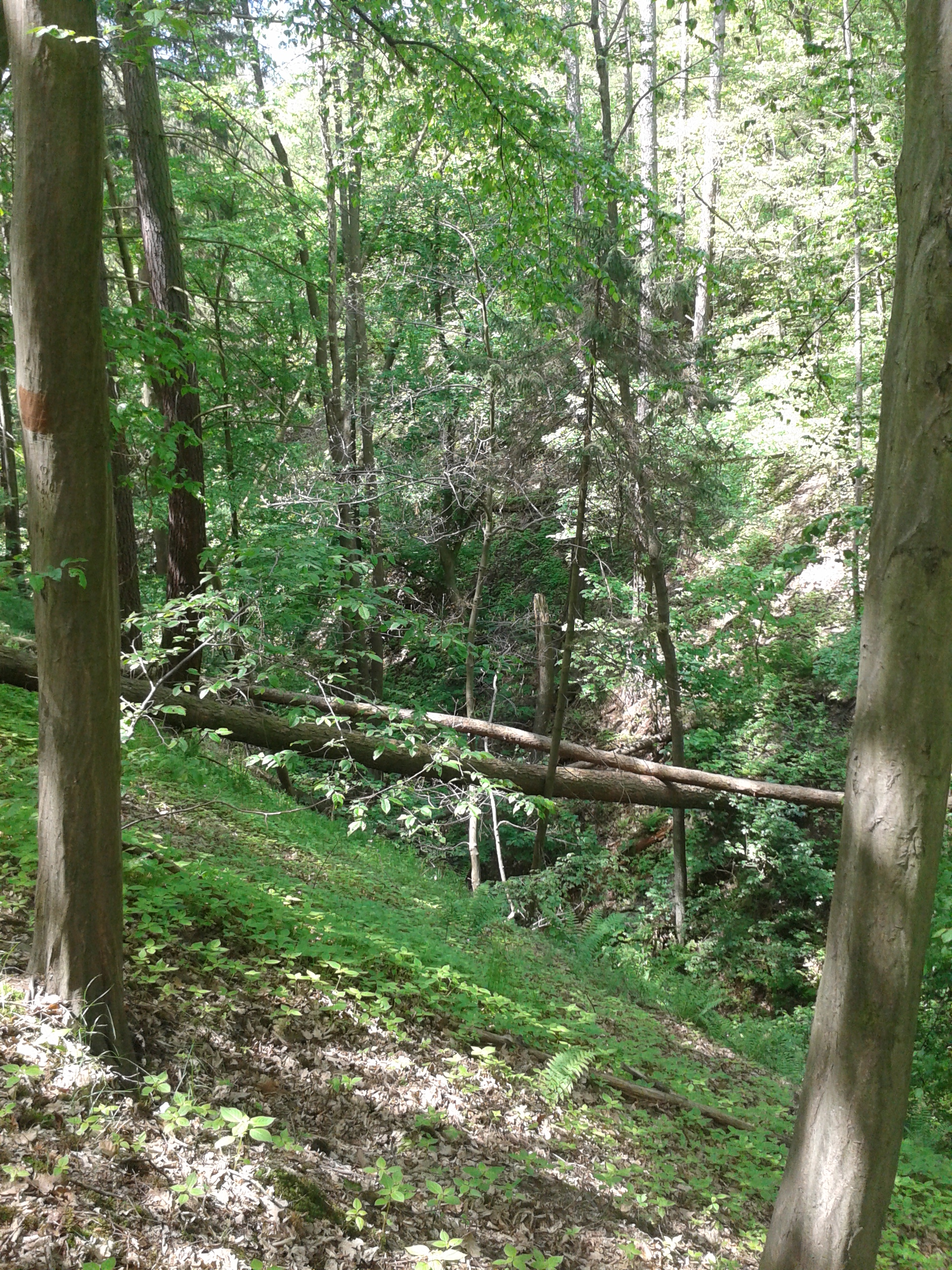 Točenská rokle (Točná ravine), part of the Nature Reserve Šance and Europas important location the Břežanské Valley in the Natural Park Modřanská rokle-Cholupice